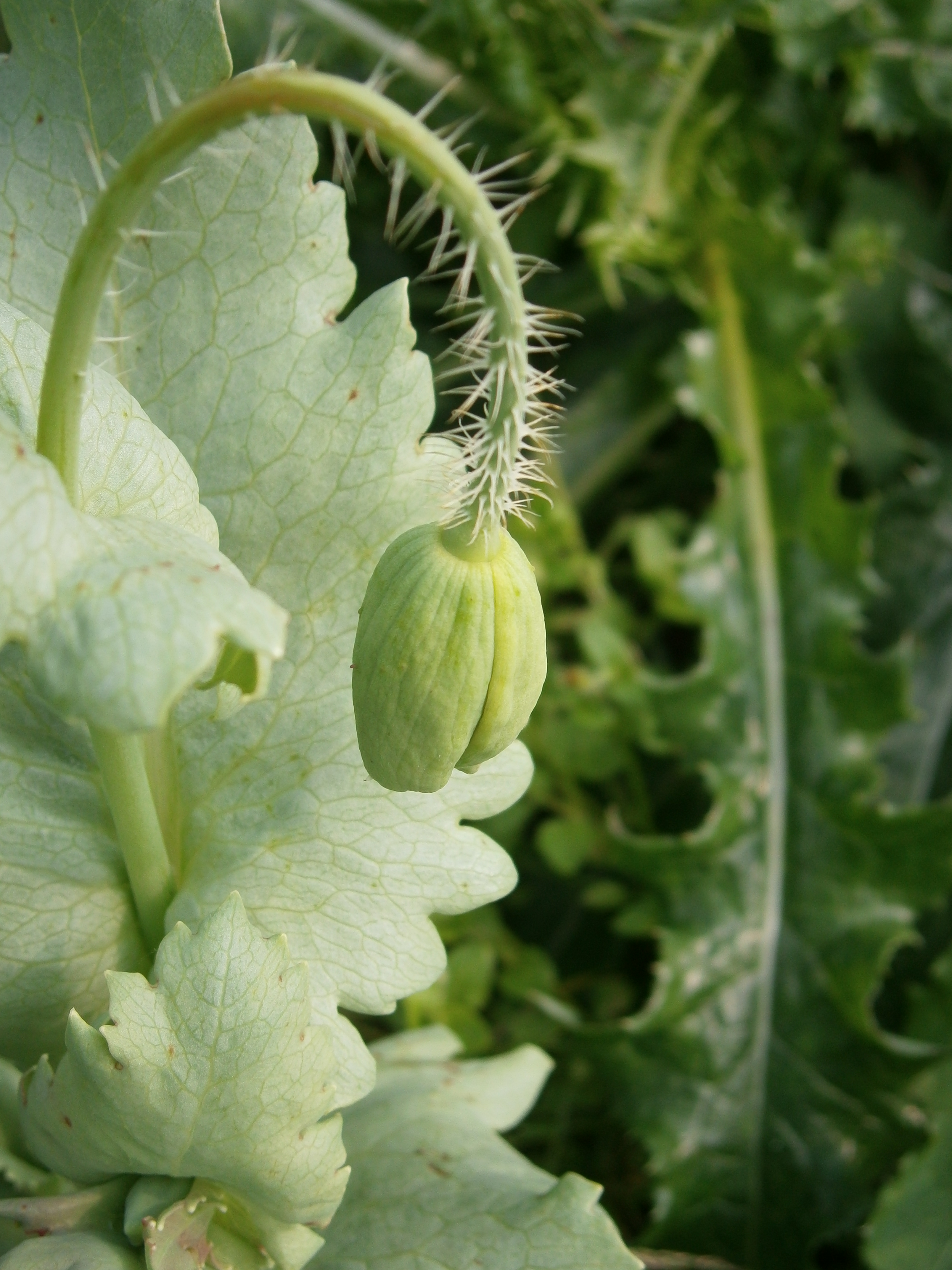 Papaver somniferum bud